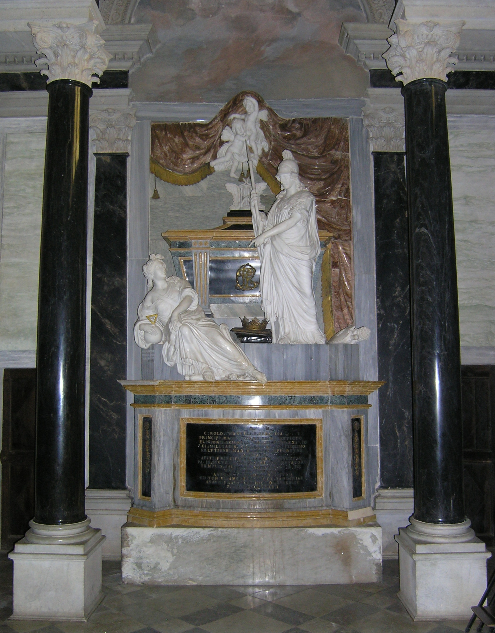 Tomb of Charles Emmanuel I, Duke of Savoy, at the sanctuary of Vicoforte, Vicoforte (Italy)